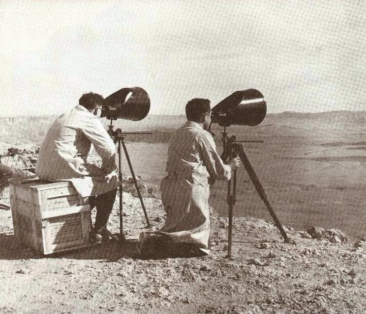 operators using an electro-optical guidance system after launching Luz missiles (1959)